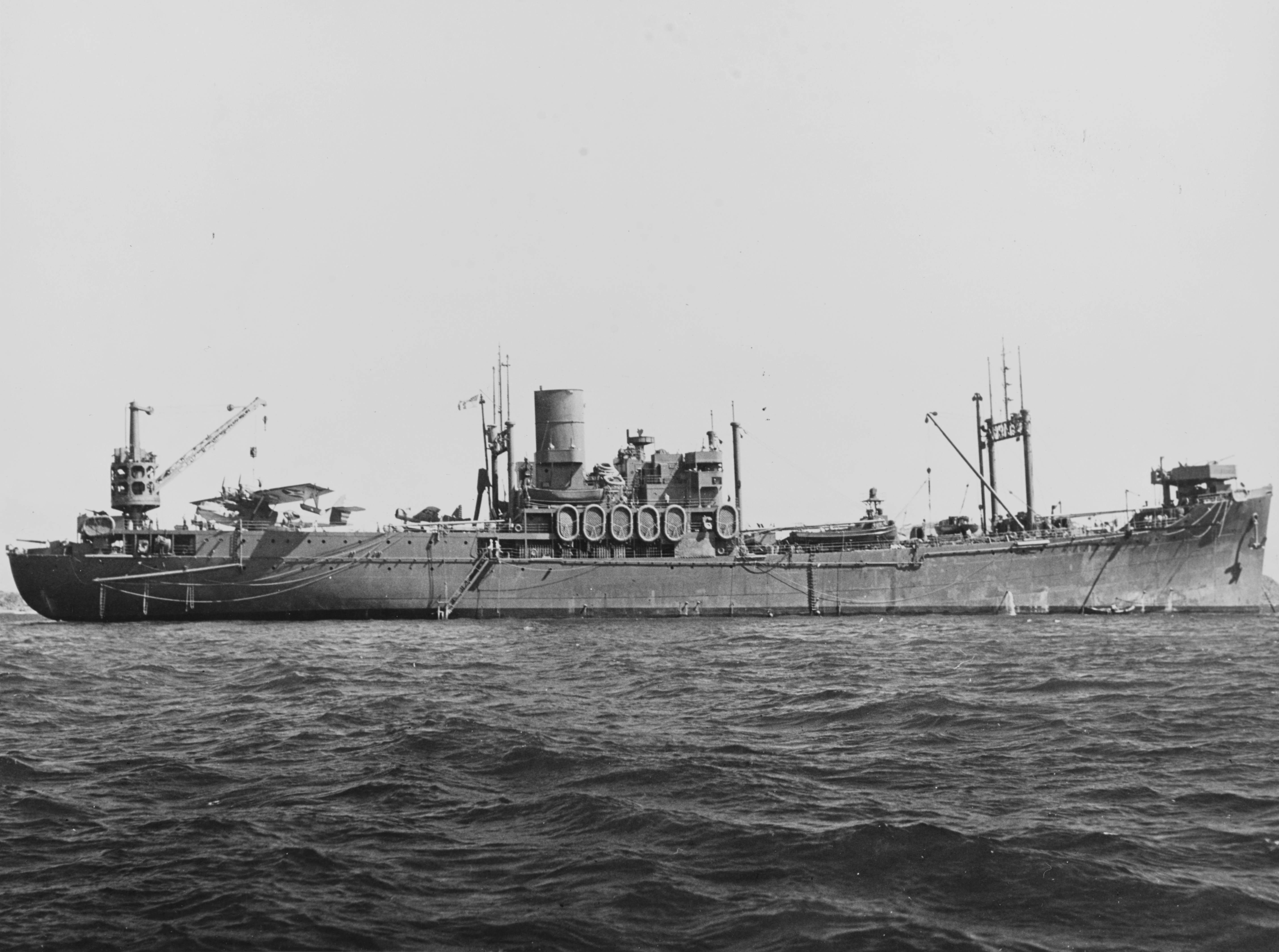 The U.S. Navy seaplane tender USS Tangier (AV-8) anchored at Nouméa, New Caledonia, on 14 April 1942. She has a Consolidated PBY-5 Catalina and a Vought OS2U-2 Kingfisher on the seaplane deck, aft.